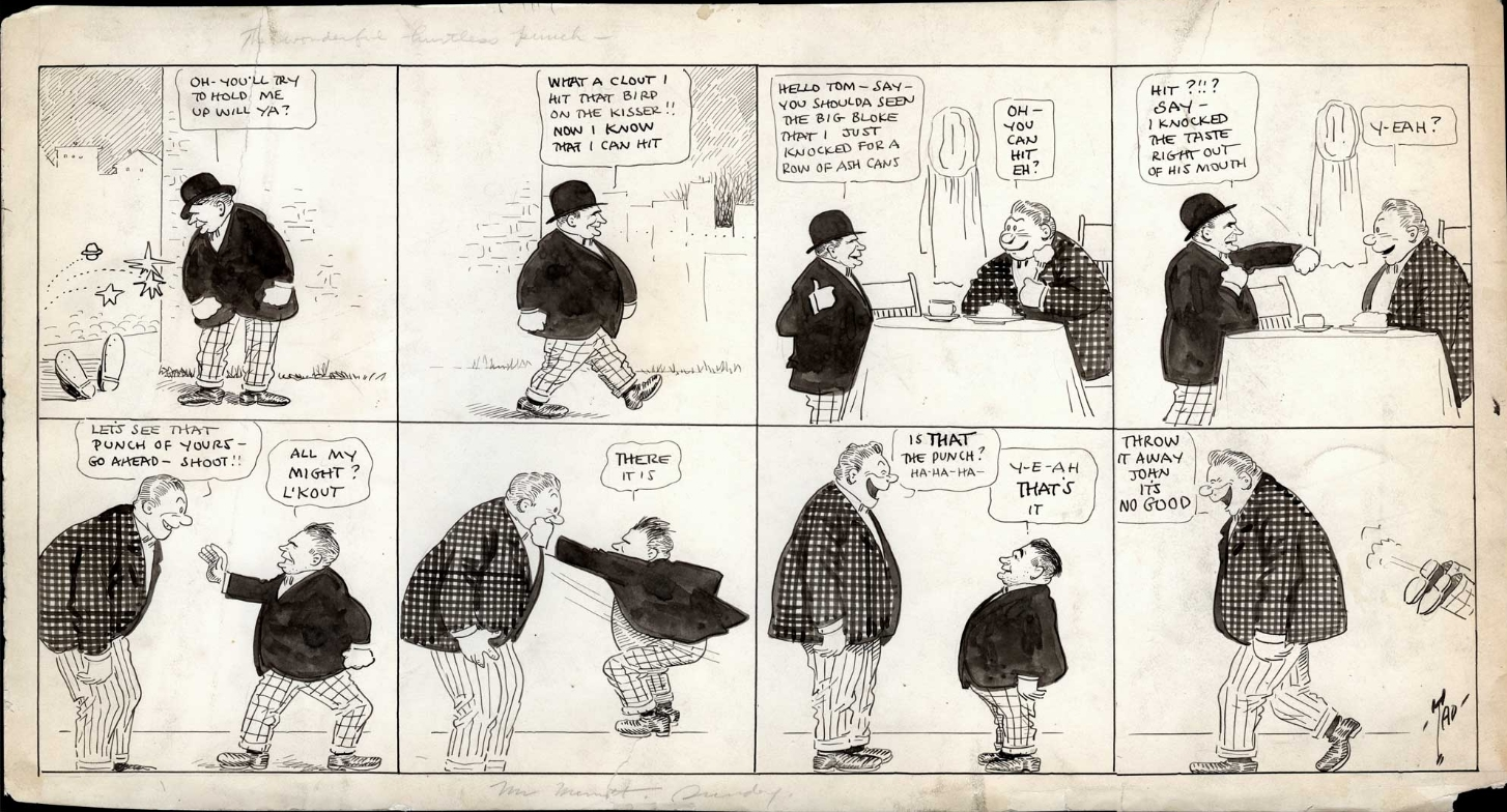 In this installment of Tad Dorgan's comic strip "City Life", a man (identified by comics historian Peter Huestis as a caricature of John McGraw) experiments with his ability to punch people. The text in this image should be transcribed and included in the description on this page. See also Transcription . The Google OCR tool may be of use in transcribing images.